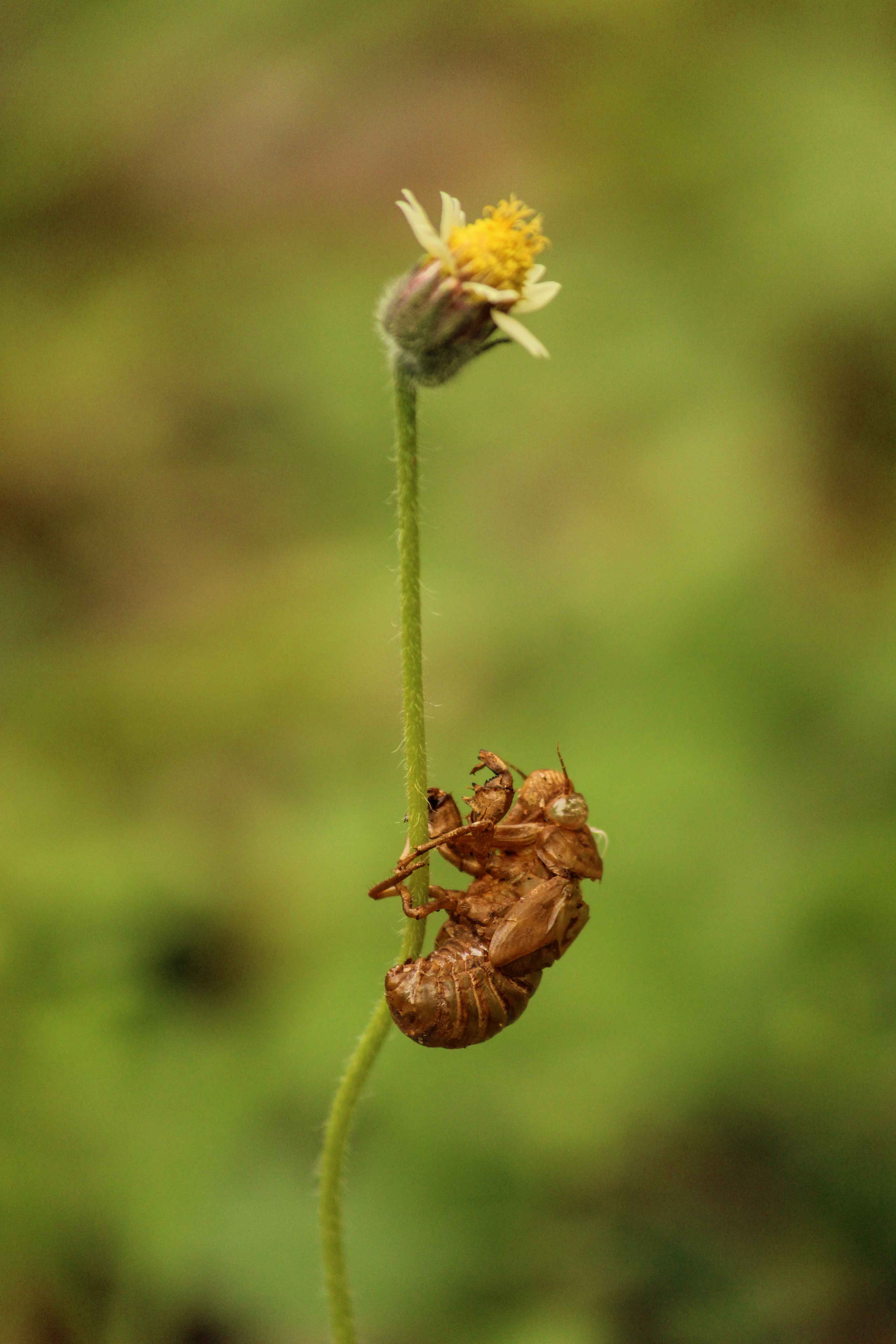 This was taken in garden